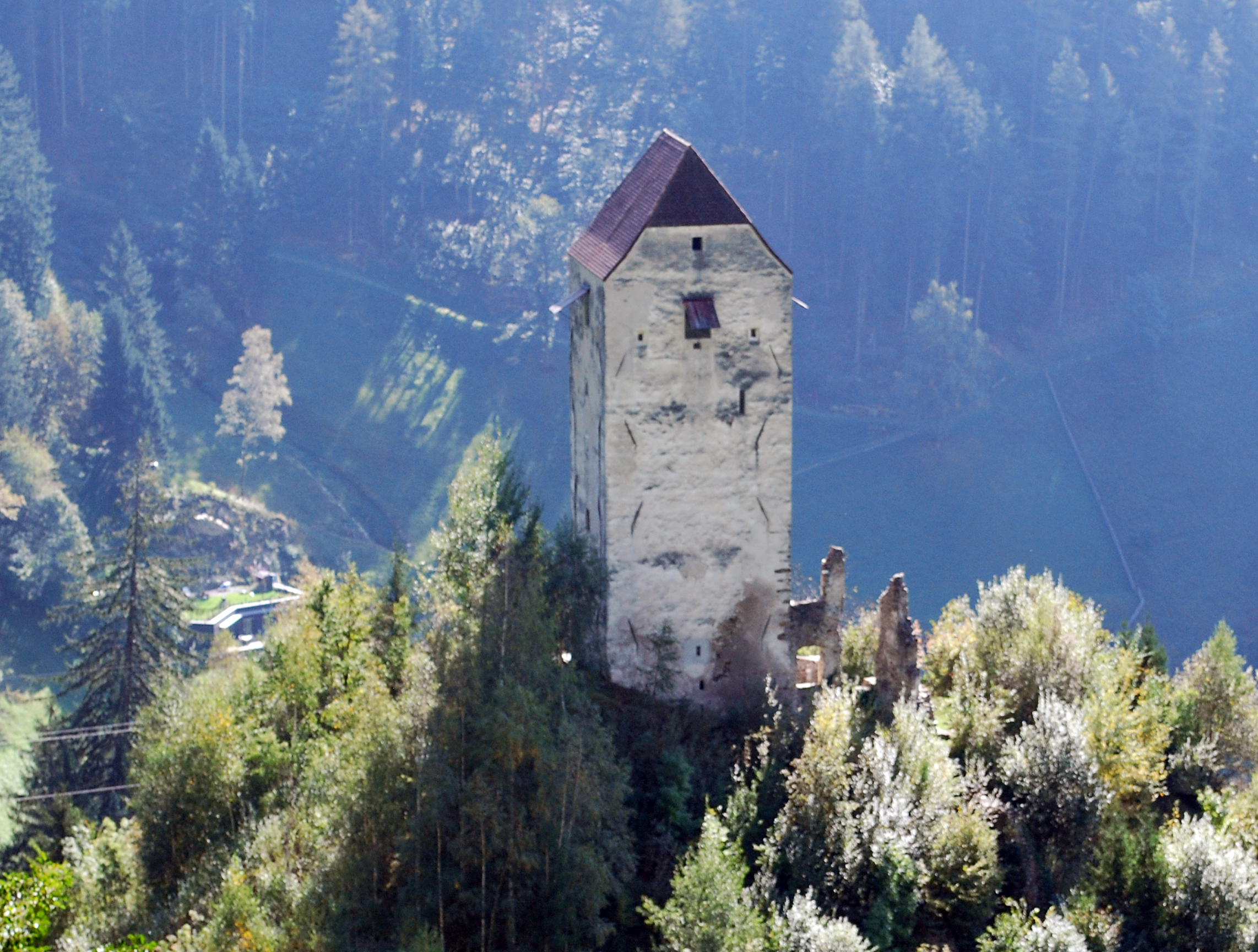 Jaufenburg